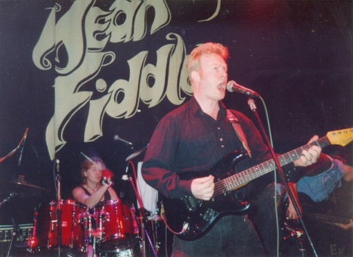 Cry Before Dawn, live at the Mean Fiddler, 1991